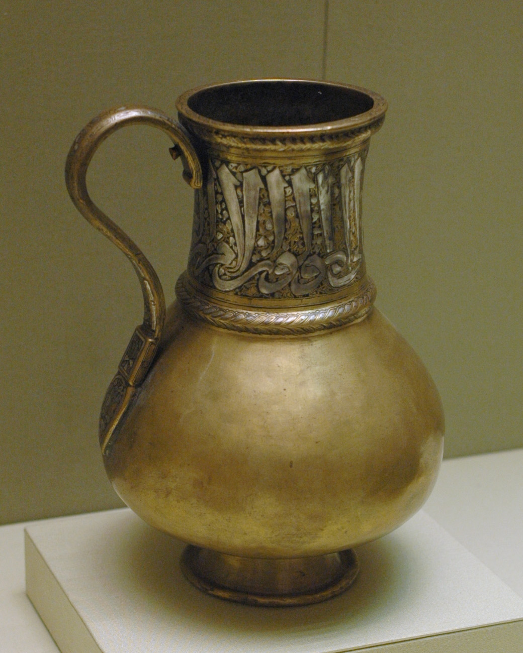 Jug. The neck bears a Persian inscription in black Thulth script, refering to a dignitary of Sultan al-Malik al Nasir al-Din Muhammad ibn Qala’un.